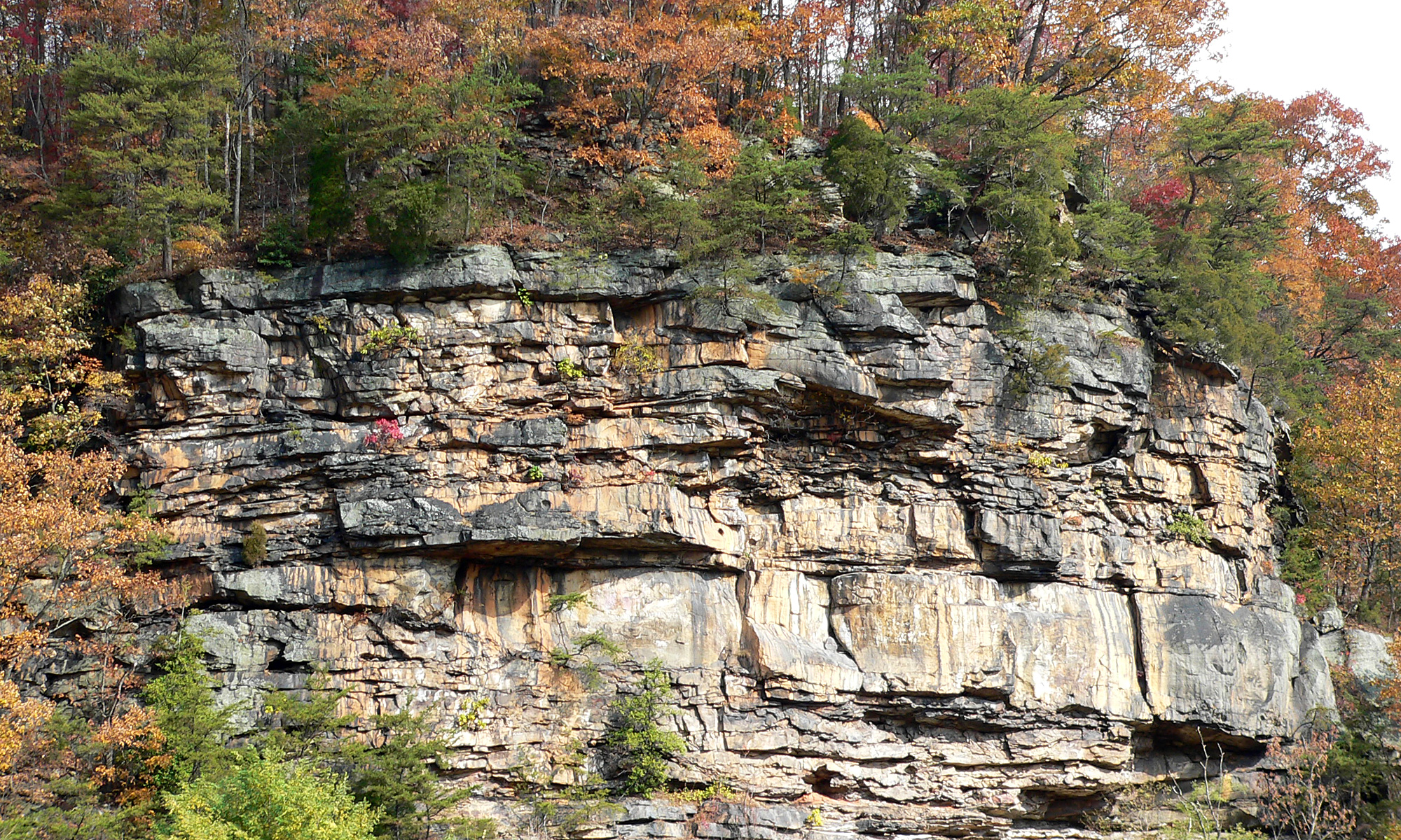 Cliffs overlooking the New River near Gauley Bridge, WV, USA. Photo taken with a Panasonic Lumix DMC-FZ20.